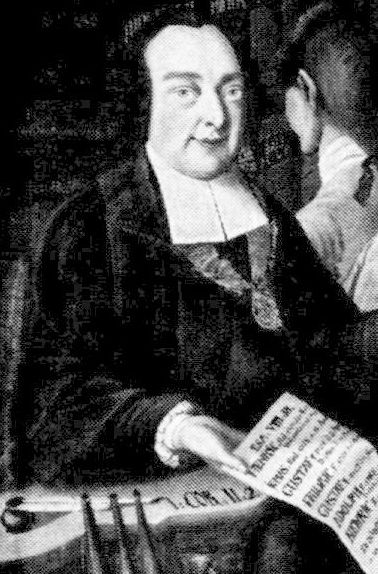 Cropped version of the epitaph of Swedish clergyman and botanist Gustaf Fredrik Hjortberg (1724-1776)